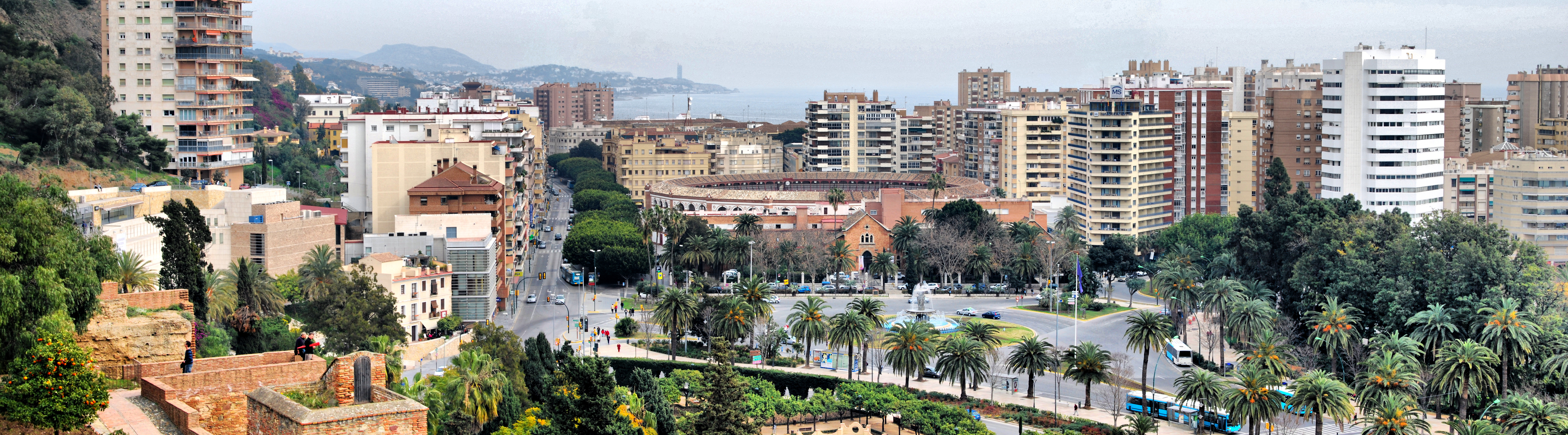 La Malagueta, Málaga, Spain.